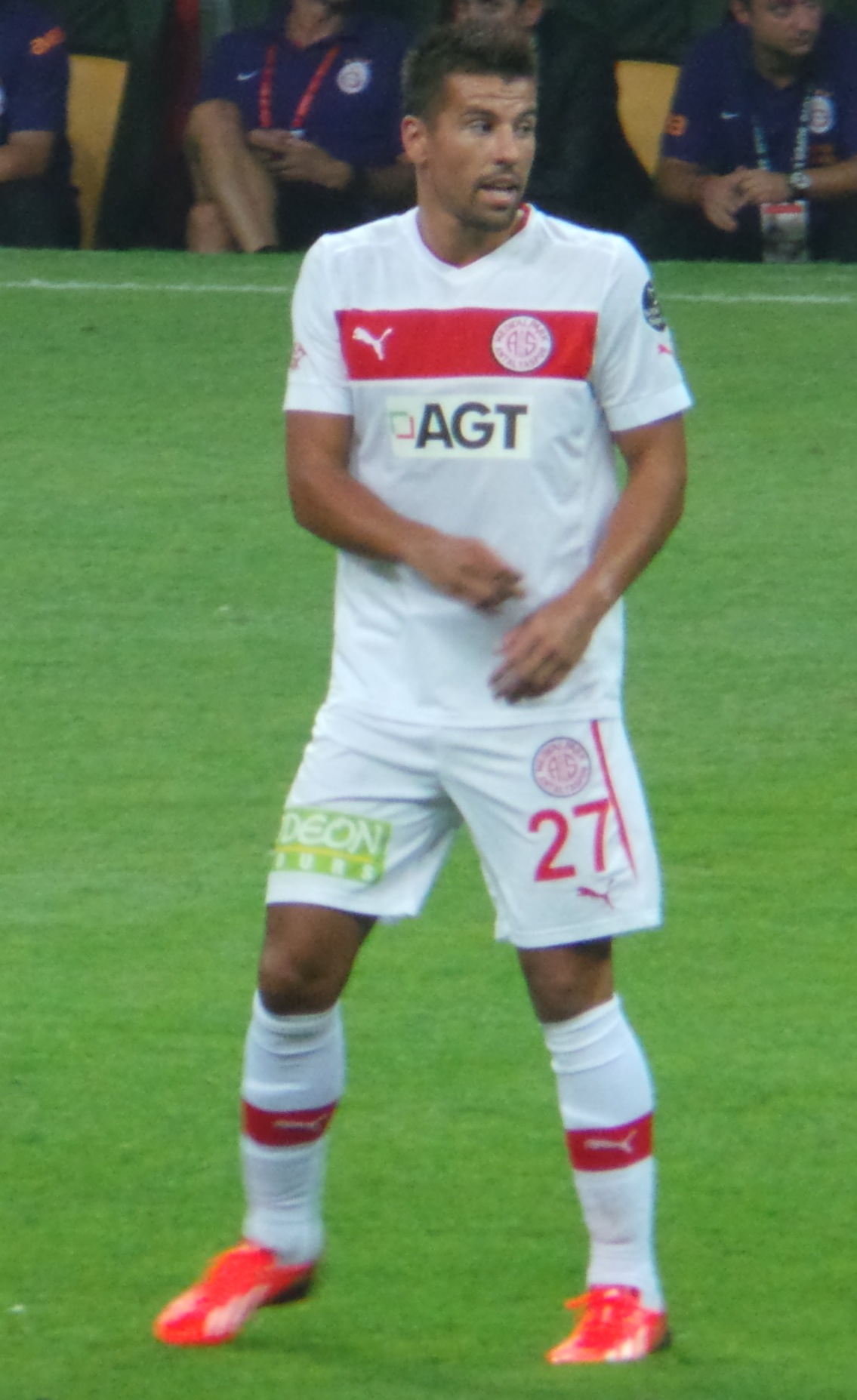 Milan Baroš